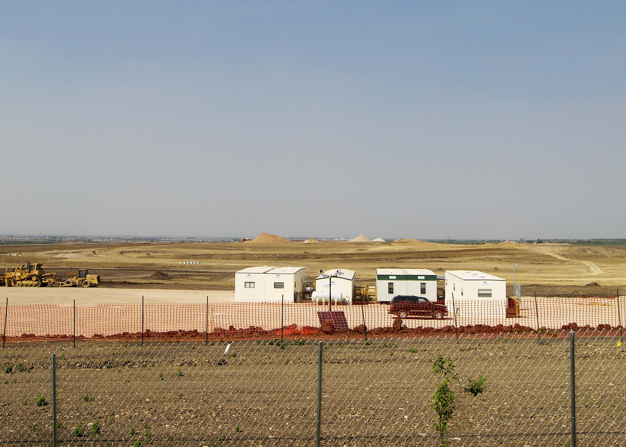 Grading work at the new Austin Formula One Circuit that will host the United States Grand Prix beginning in 2012.